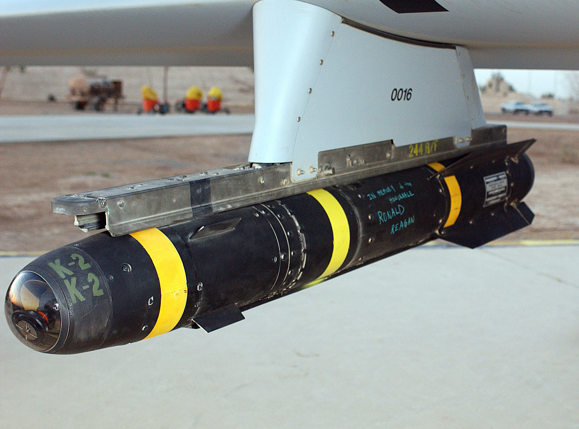 An AGM-114 Hellfire missile hung on the rail of an US Air Force MQ-1L Predator Unmanned Aerial Vehicle (UAV) is inscribed with, "IN MEMORY OF THE HONORABLE RONALD REAGAN."